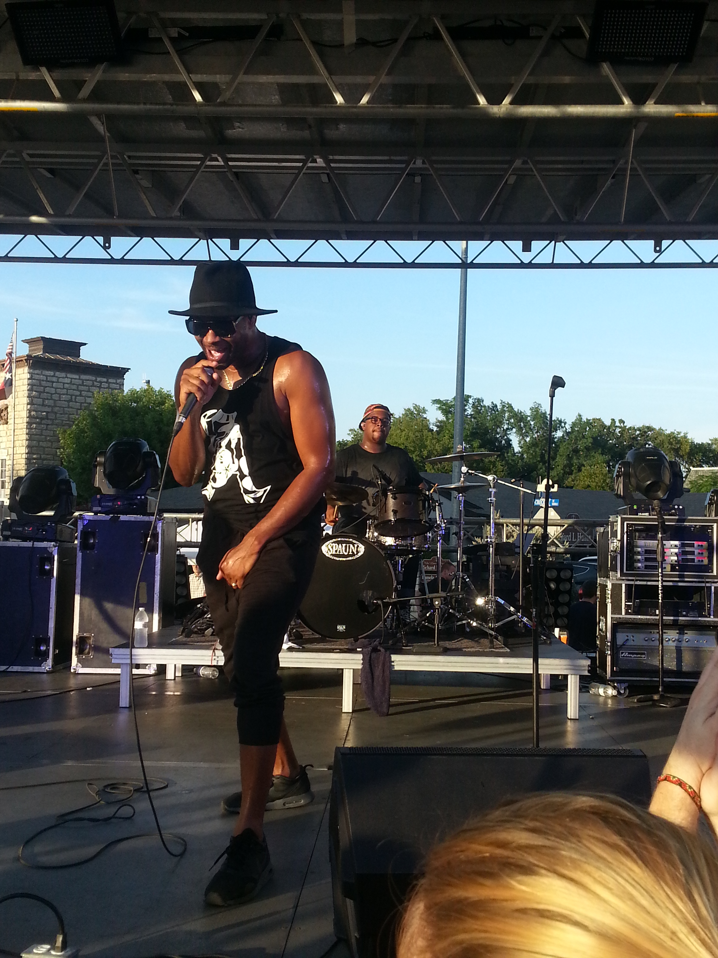 Shomlock